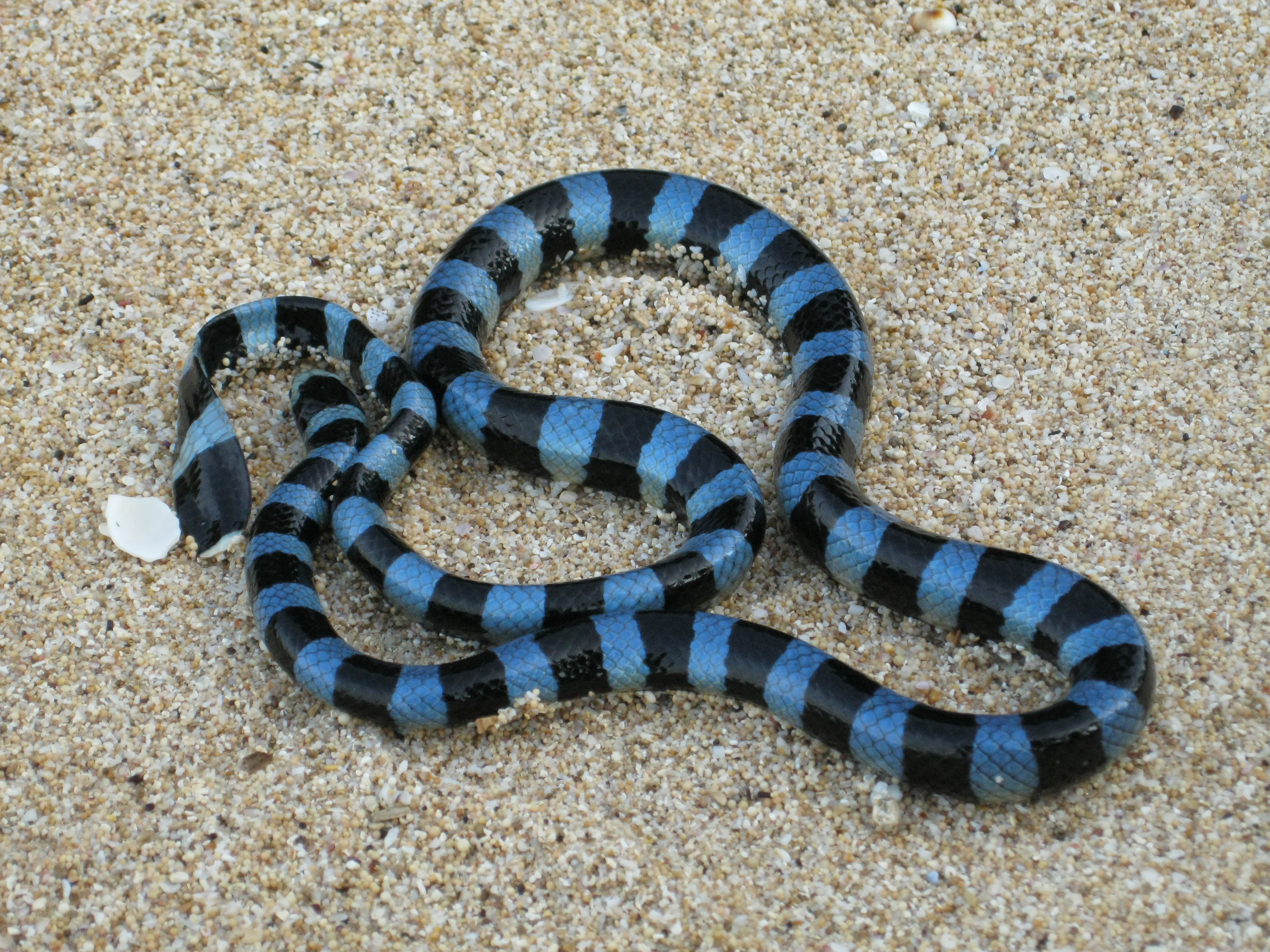 The blue-lipped sea krait (Laticauda laticaudata) is a species of venomous sea-snakes Elapidae (Laticaudinae-sea snake) found in the Indian and Pacific Oceans.